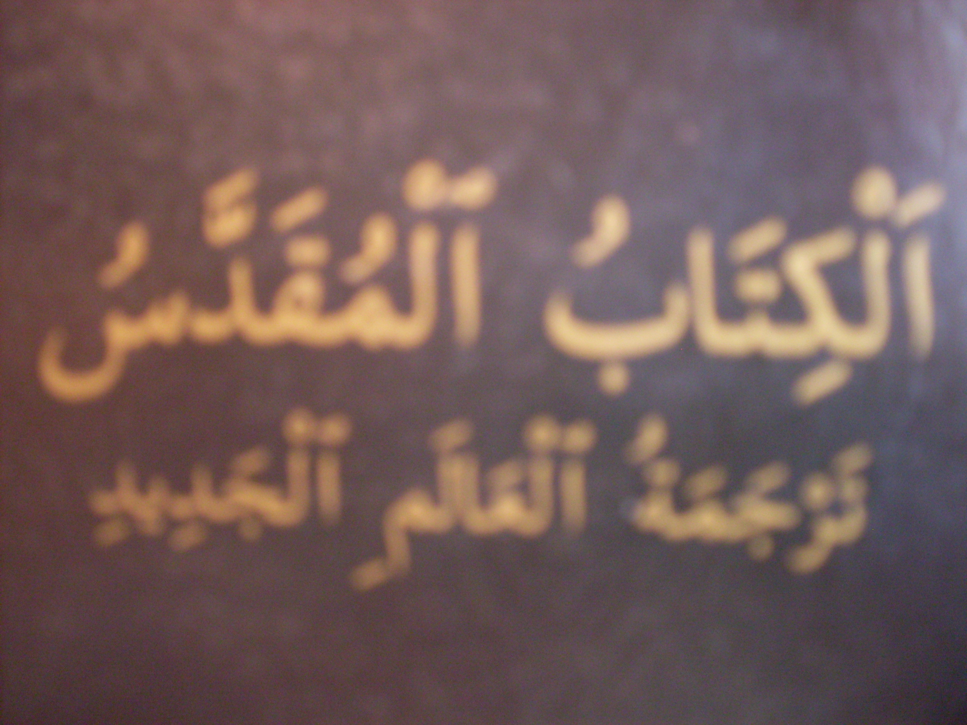 Bible New World Translations. Arabic